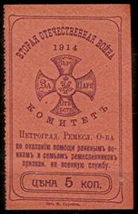 Revenue stamp of voluntary gathering on rendering assistance to wounded soldiers and families of the handicraftsmen called on military service, Committee of the Petrograd craft society, 1914